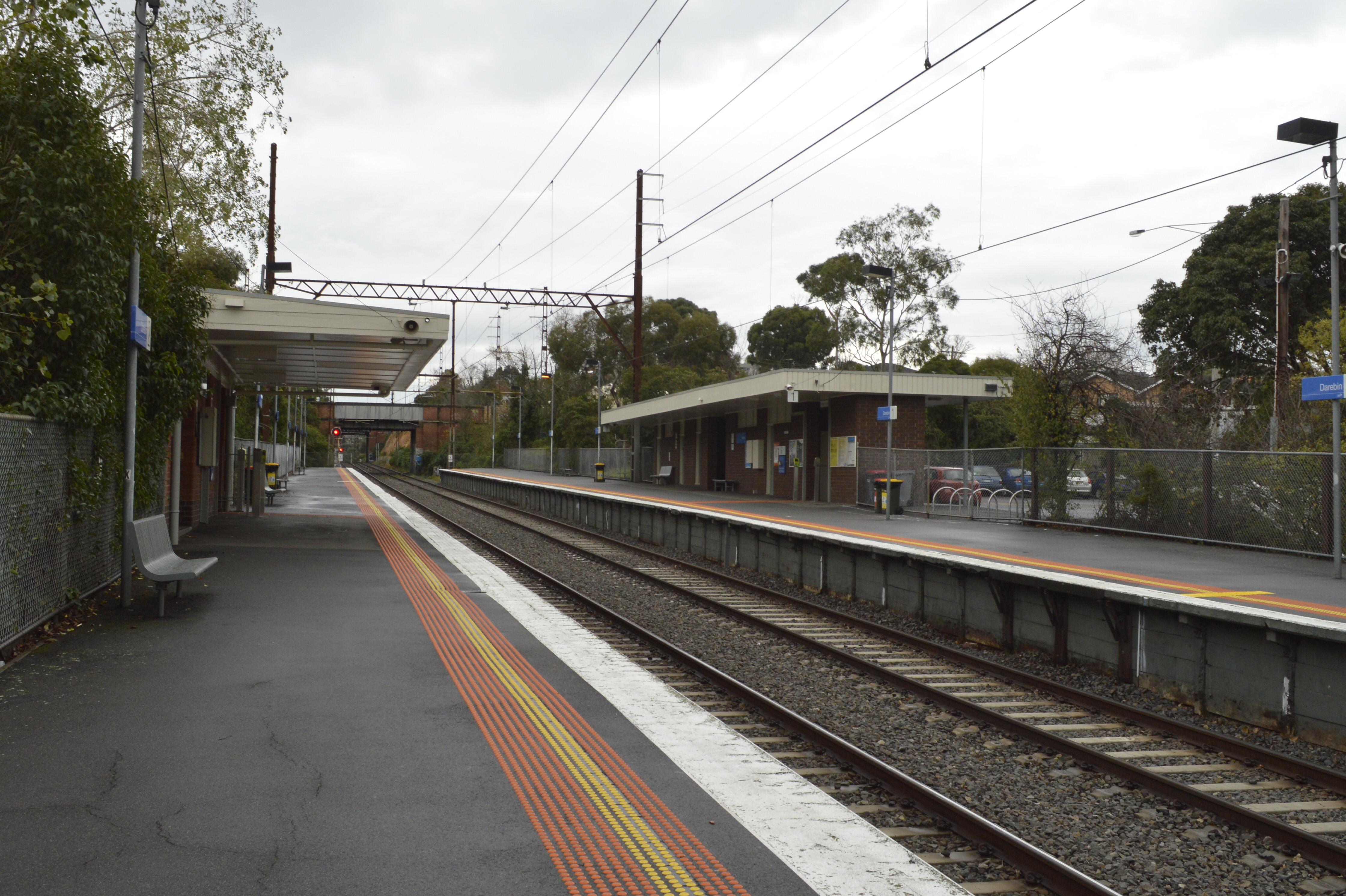 View from platform 2 looking towards Hurstbridge.